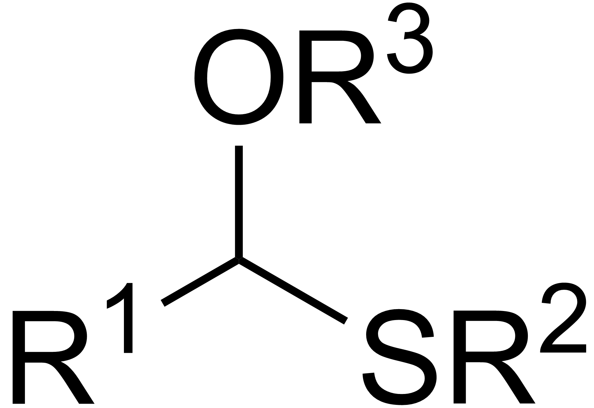 General chemical structure of a thioacetal (monothioacetal)